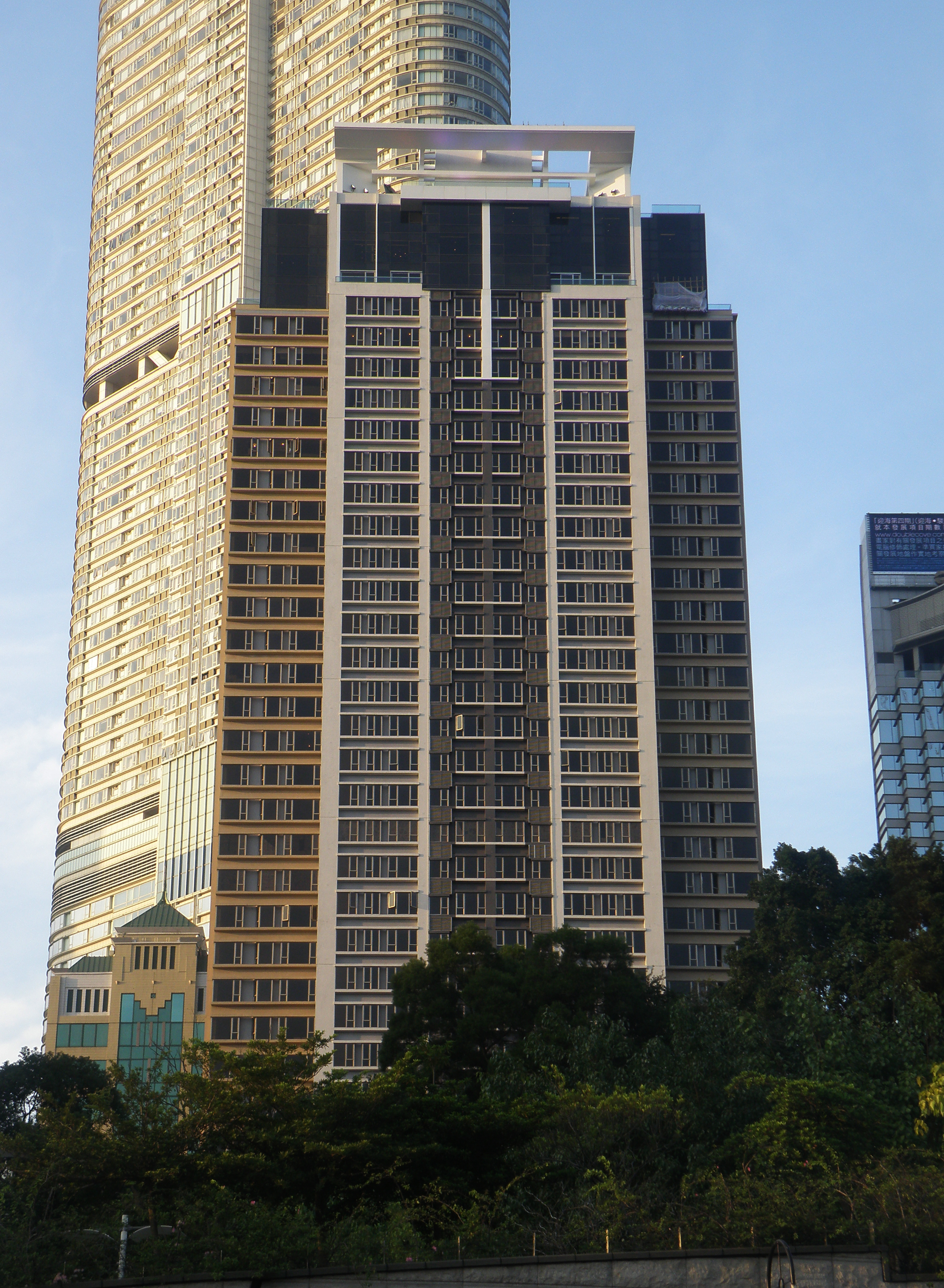 Harbour Pinnacle in Tsim Sha Tsui, Hong Kong.